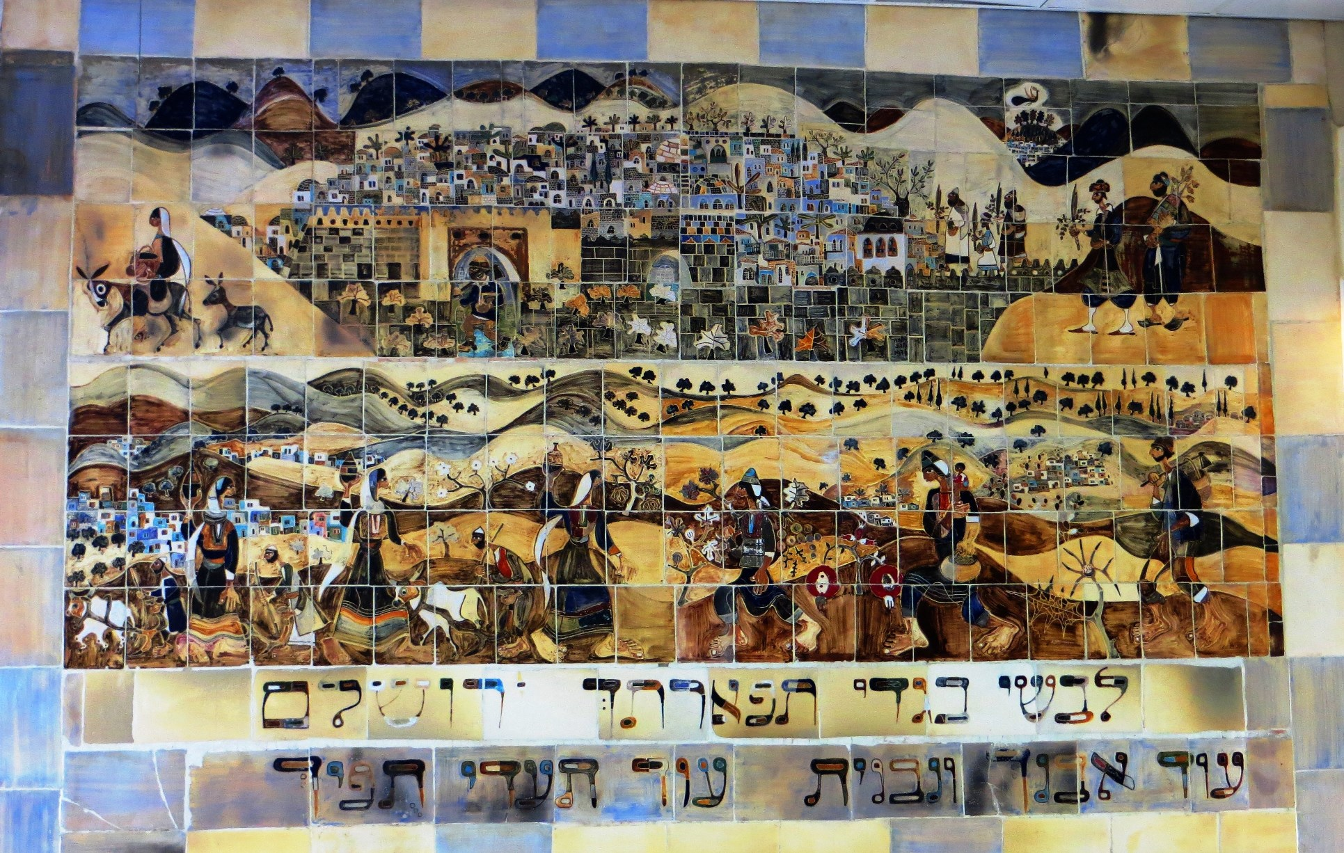 Art of Israel